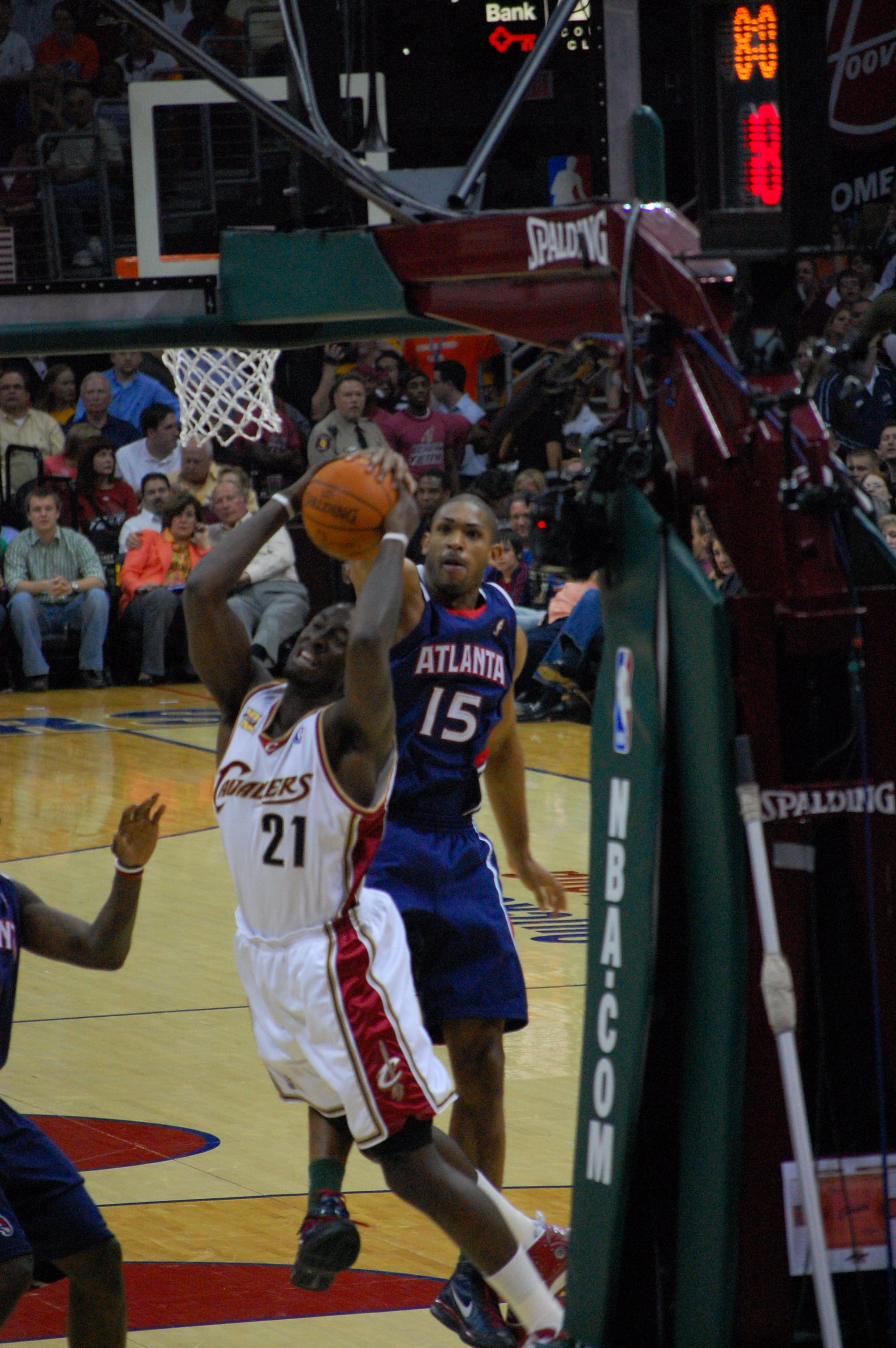 Al Hofrod of the Atlanta Hakws blocking J.J. Hickson of the Cleveland Cavaliers.